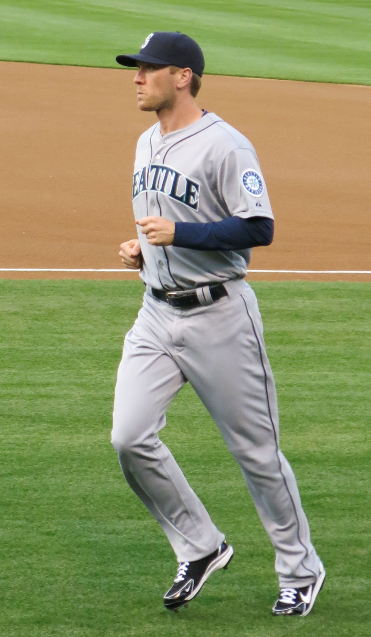 Seattle Mariners outfielder Jason Bay